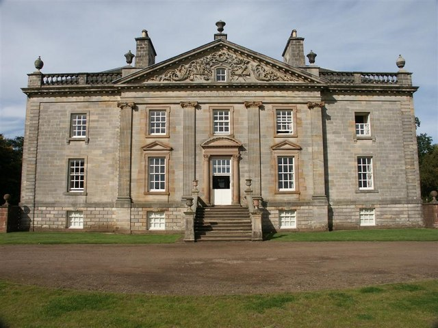 Auchinleck House